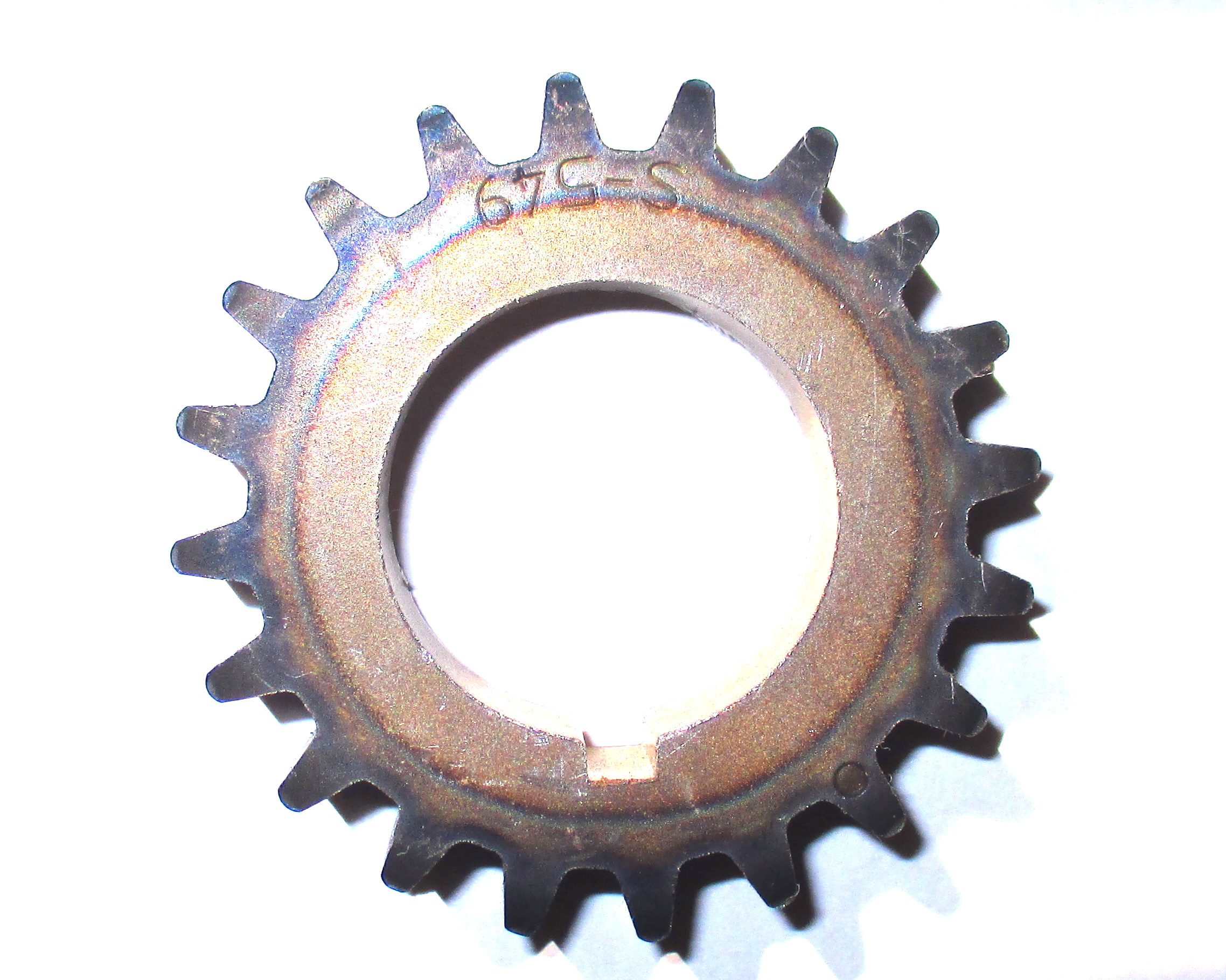 A timing sprocket for an engine that has been heat treated to a specific hardness, and then flame hardened at only the surface of the teeth. The bluish discoloration around the teeth indicate the area that was quickly heated to red hot and then quenched, hardening only the surface to the highest hardness possible. The sprocket is then used without further tempering, providing a very wear-resistant surface, but providing tougher metal directly underneath. The heat-affected zone lies just inside this discoloration, penetrating beneath the hardened metal, between the teeth and the ring of tempering colors.